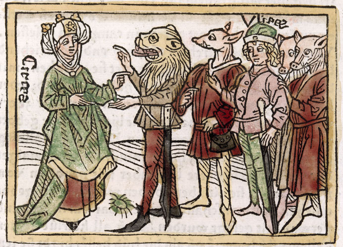 Circe and Odysseus (Ulixes) in a book illustration in Giovanni Boccaccio's book De claris mulieribus , caption of the German translation reads Hie nach volget der kurcz sin von etlichen frowen / von denen johannes boccacius in latin beschriben hat, vnd doctor hainricus stainhöwel getütschet. The book in Latin language offering biographies of famous women was written between 1360 and 1374. It was translated into the German language by Heinrich Steinhöwel, that printed by Johannes Zainer, Ulm, 1474.